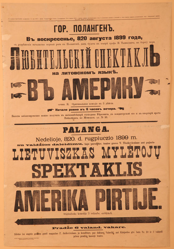 Bilingual (Russian and Lithuanian) poster of Amerika pirtyje, the first Lithuanian-language theater play. Measures 87 x 61.5 cm